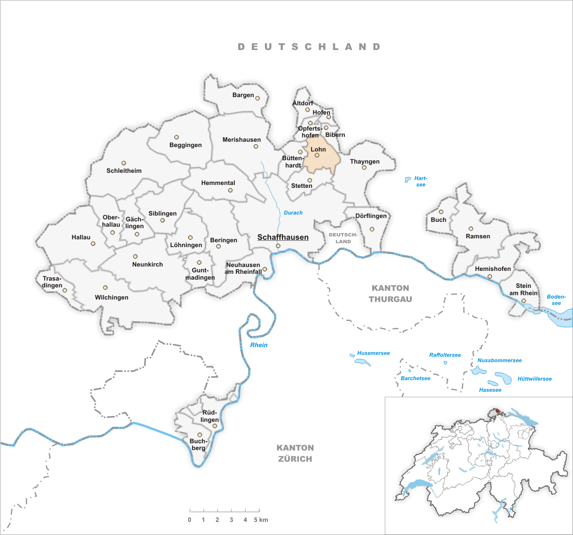 Municipality Lohn